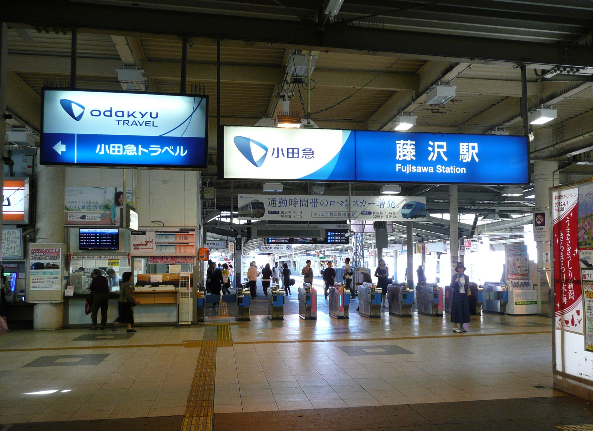 Ticket Gate of Odakyu Fujisawa Station